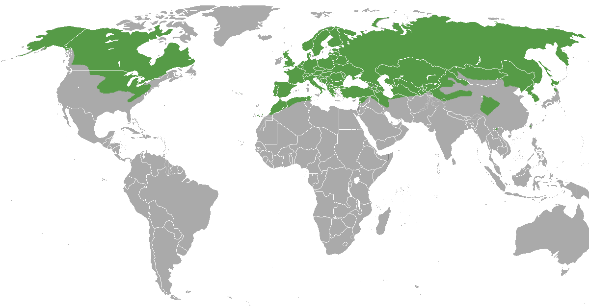 Least Weasel (Mustela nivalis) rangeNorsk bokmål: Snømus (Mustela nivalis) utbredelse